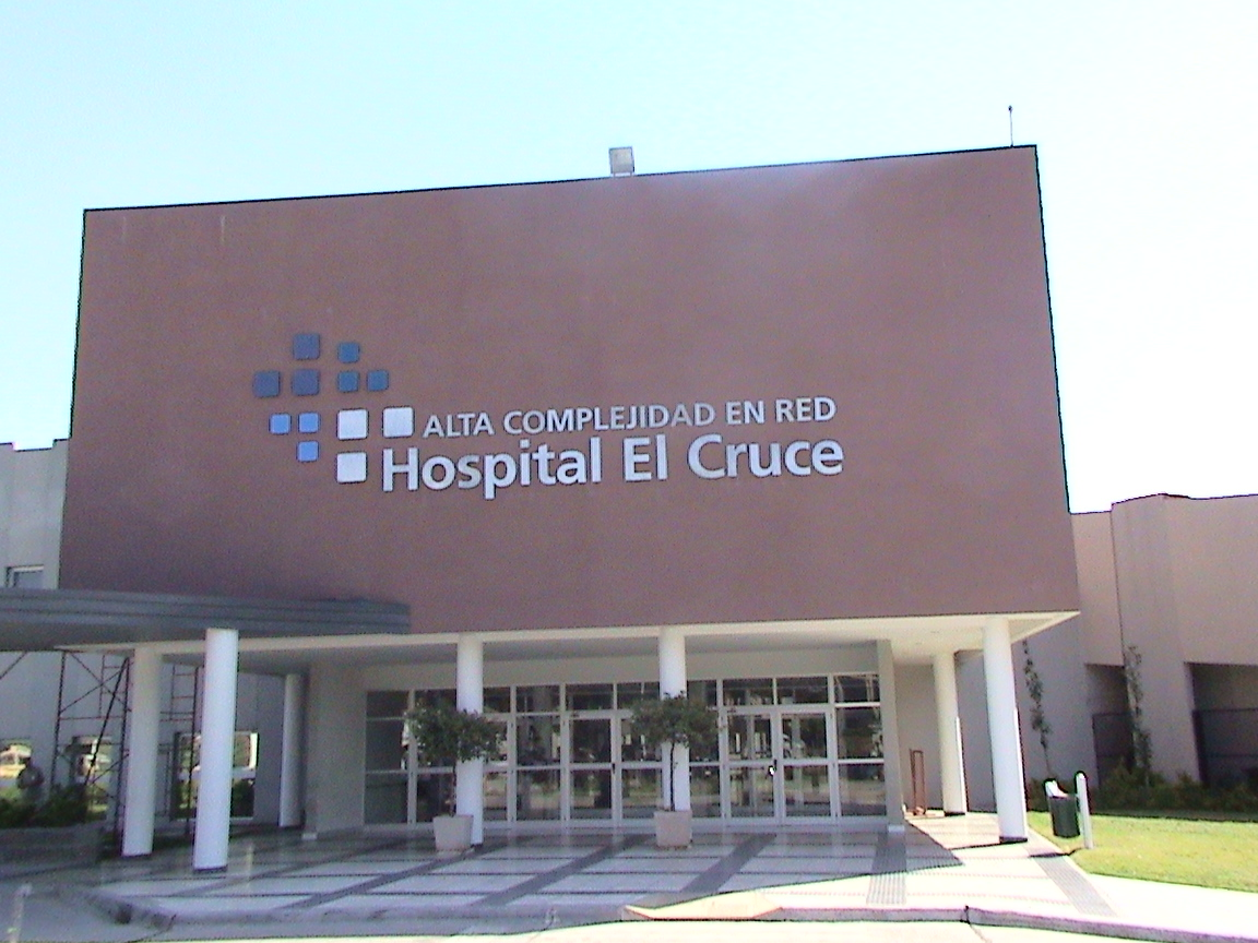 El Cruce Hospital, in Florencio Valera, south of Buenos Aires, Argentina. Inaugurated in 2009, it was named one of Latin America's five best hospitals in 2013.